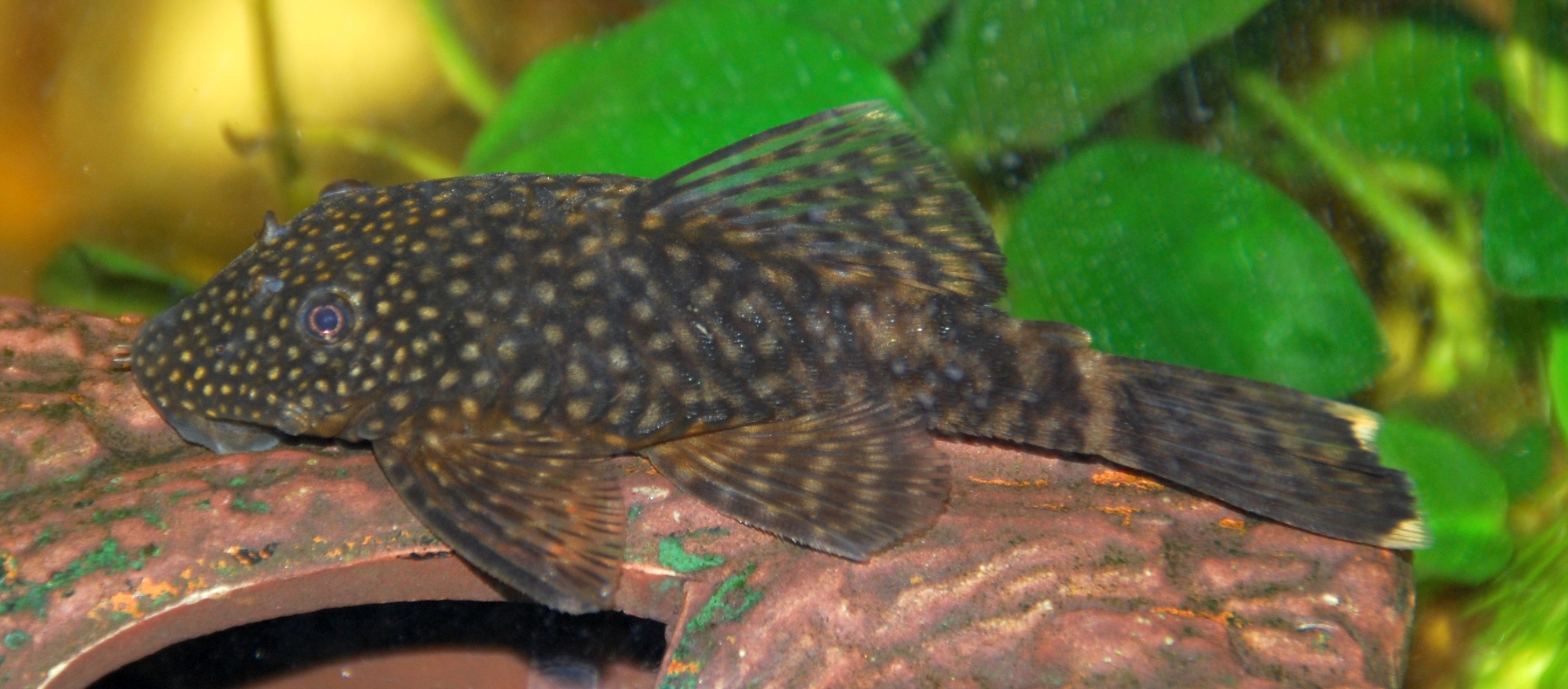 Ancistrus temminckii